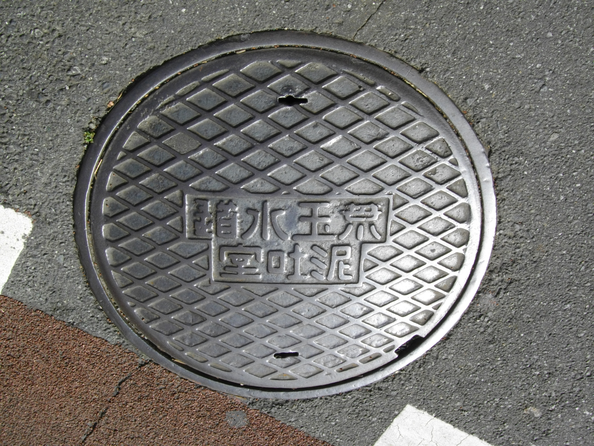 Aratama Waterworks manhole at Numabukuro